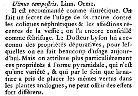 M. Durande, "Mémoire sur les Plantes astringentes indigenes", Nouveaux mémoires de l'Académie de Dijon, pour la partie des sciences et arts, 1783, premier sémestre, p. 112